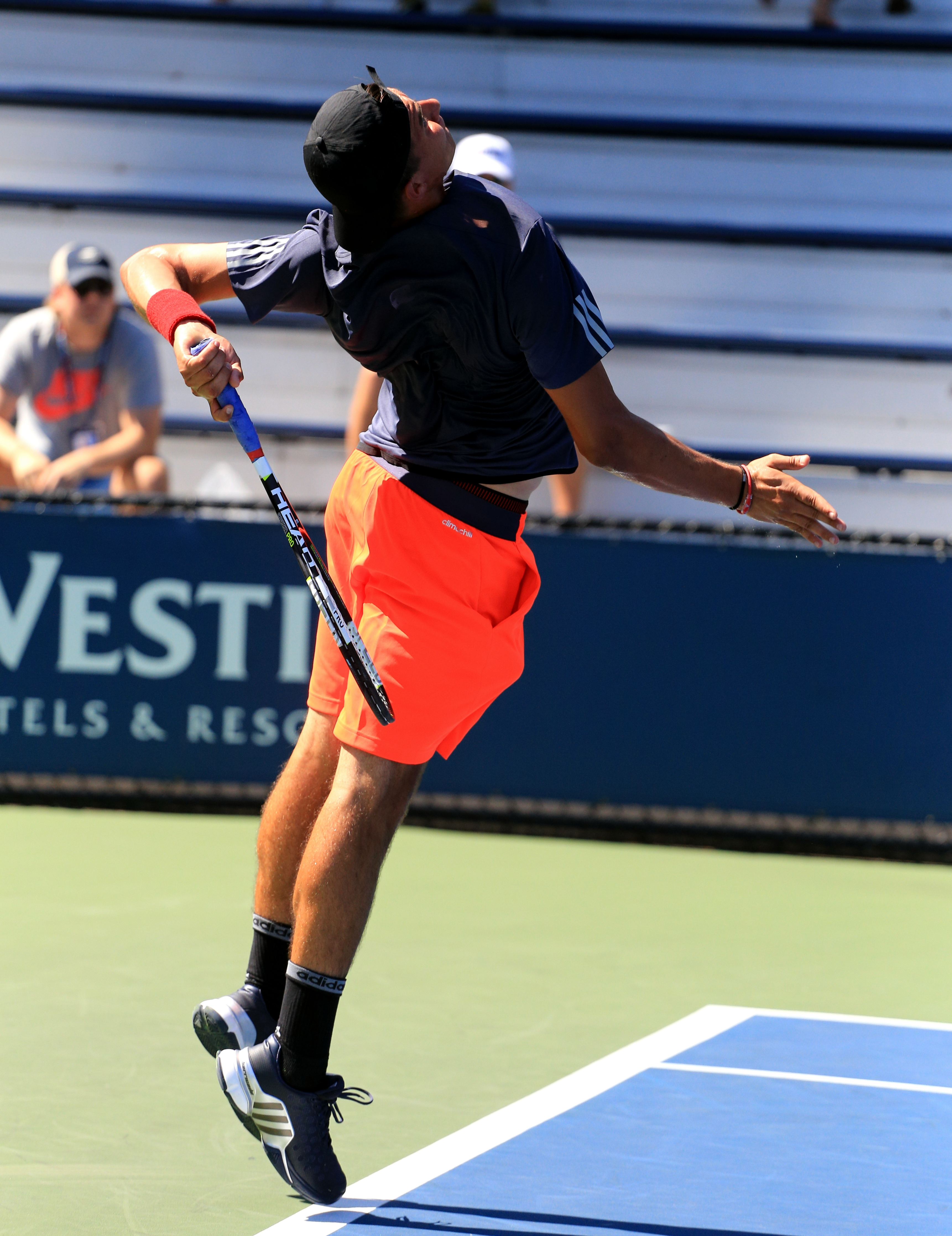 Patrik Niklas-Salminen at the 2015 US Junior Open